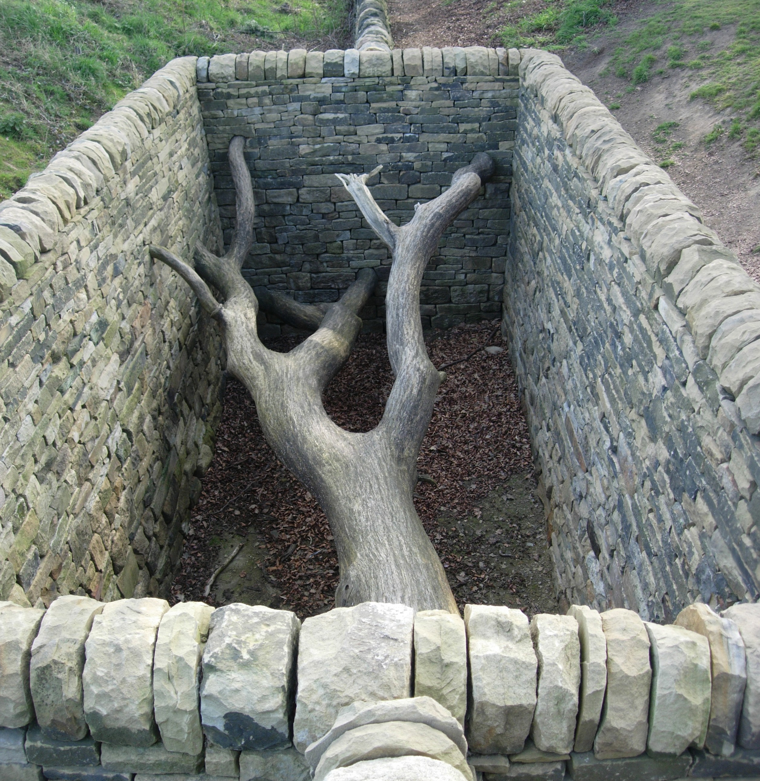 Andy Goldsworthy tree with stones around it.